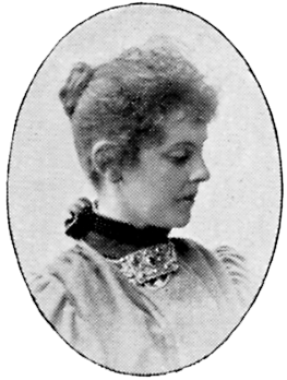 Image scanned from the book "Svenskt Porträttgalleri XX - Arkitekter, Bildhuggare, Målare m.fl. " ("Swedish Portrait Gallery XX - Architects, Sculptors, Painters, ") published 1901